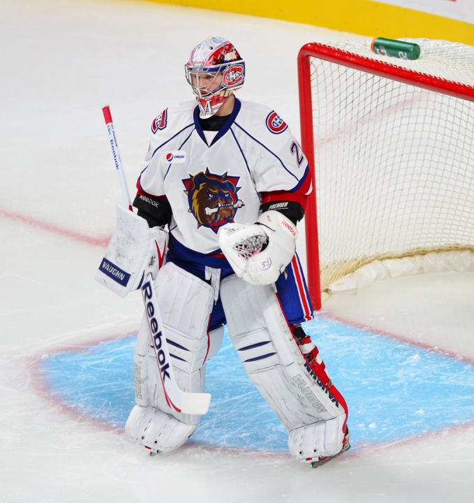 Robert Mayer, in a game between the Hamilton Bulldogs and the Syracuse Crunch at the Bell Centre of Montreal.